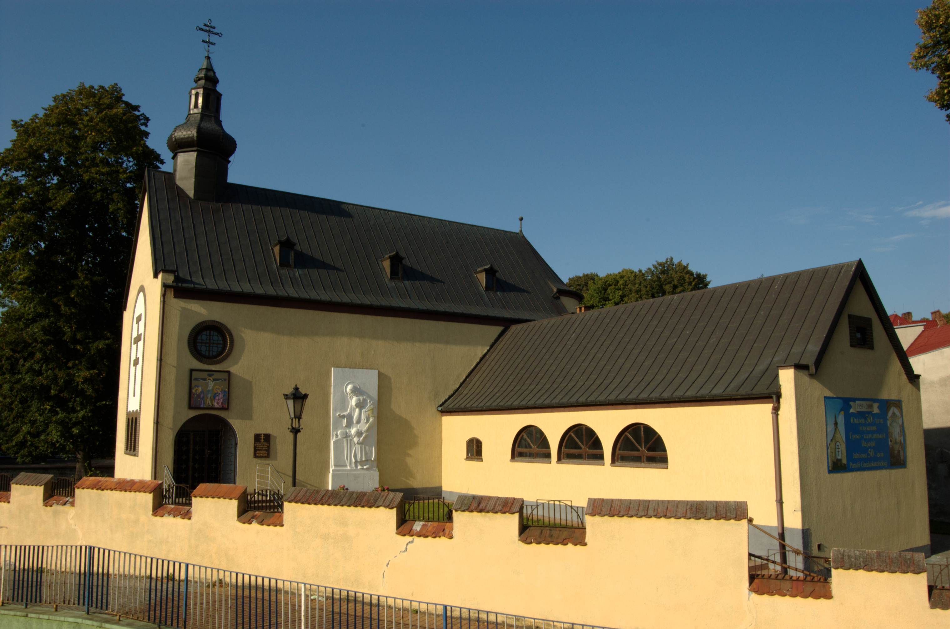 Greek catholic church in Wałcz. Formerly evangelical hospital chapel with a morgue, built in 1923-1924. Wałcz, 12 lutego 3 street